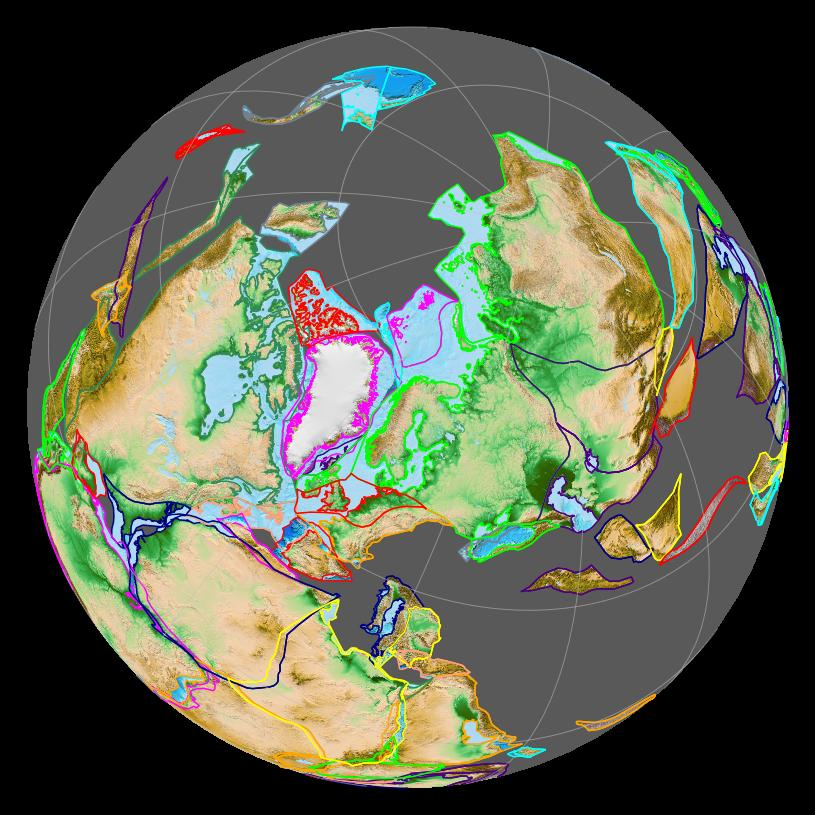 Laurasia (Laurentia , Baltica, and Siberia) forming the northern part of the supercontinent Pangaea at 200 Ma. Made using GPlates: Citations: Golonka, J. (2007), Late Triassic and Early Jurassic palaeogeography of the world, Palaeogeography, Palaeoclimatology, Palaeoecology, 244(1-4), 297-307. Müller, R., M. Sdrolias, C. Gaina, and W. Roest (2008), Age, spreading rates, and spreading asymmetry of the world's ocean crust, Geochemistry, Geophysics, Geosystems, 9(Q04006), 19. Seton, M., R. Müller, S. Zahirovic, C. Gaina, T. Torsvik, G. Shephard, A. Talsma, M. Gurnis, M. Turner, and M. Chandler (2012), Global continental and ocean basin reconstructions since 200 Ma, Earth-Science Reviews, 113(3-4), 212-270. Torsvik, T., and R. Van de Voo (2002), Refining Gondwana and Pangea Palaeogeography: Estimates of Phanerozoic non dipole (octupole) fields, Geophysical Journal International, 151(3), 771-794. Wright, N., S. Zahirovic, R. D. Müller, and M. Seton (2013), Towards community-driven, open-access paleogeographic reconstructions: integrating open-access paleogeographic and paleobiology data with plate tectonics, Biogeosciences, 10, 1529-1541